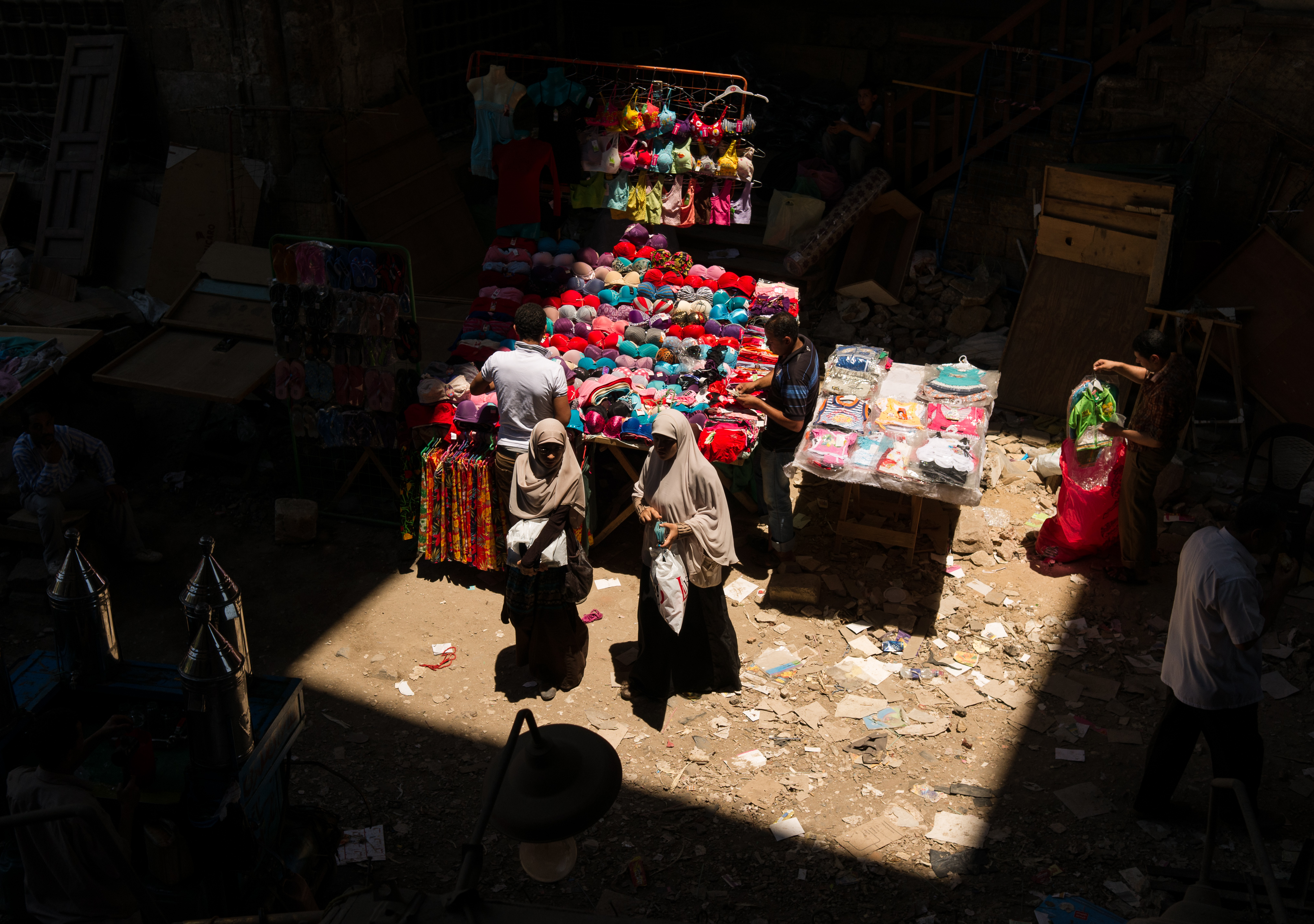 Two Egyptian women shopping at a market next to the Al-Ghouri Complex in Cairo, Egypt.